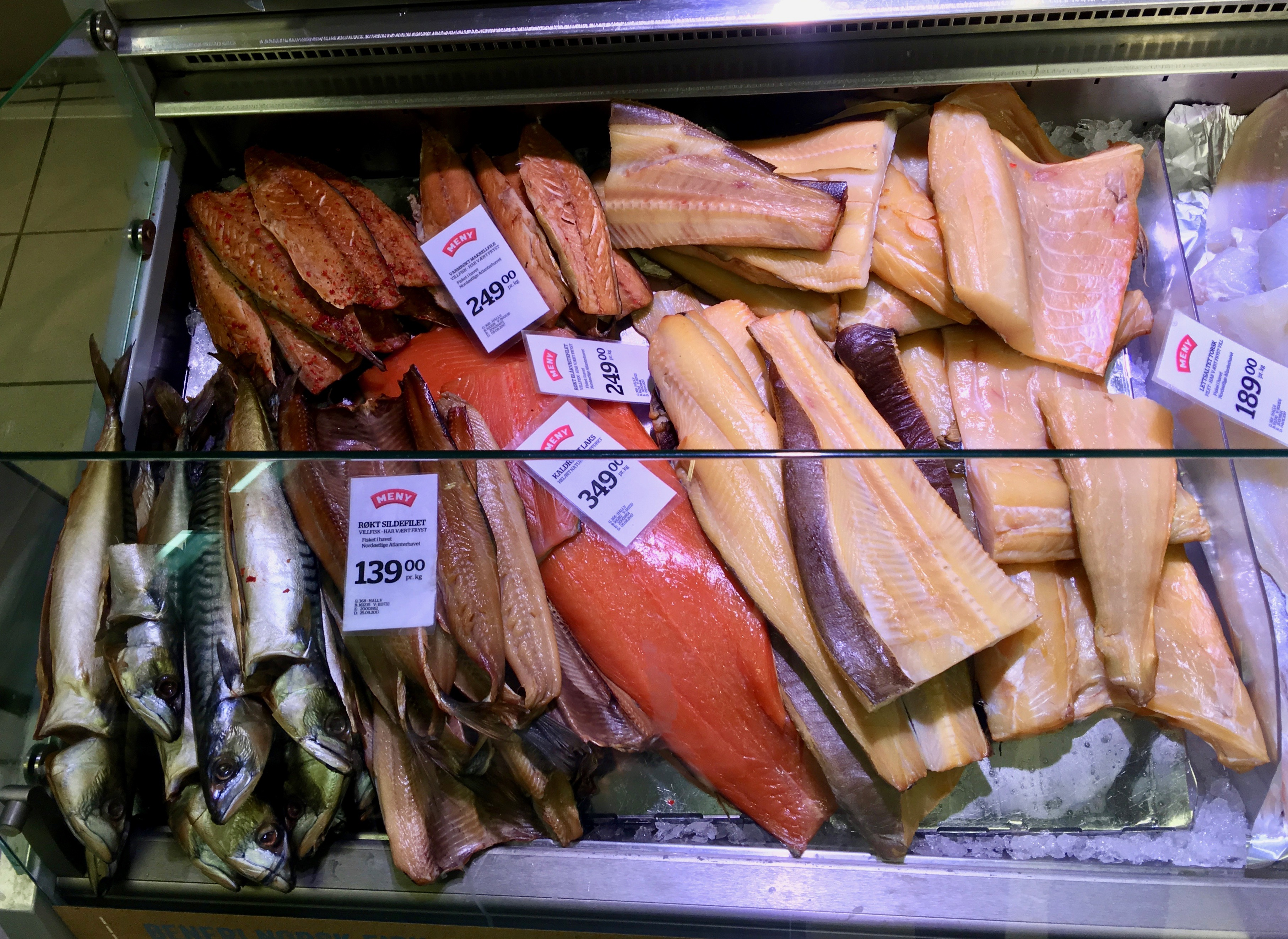 Smoked fish for sale at Meny Supermarket in Bergen Storsenter (shopping mall in Bergen, Norway). October 2017.